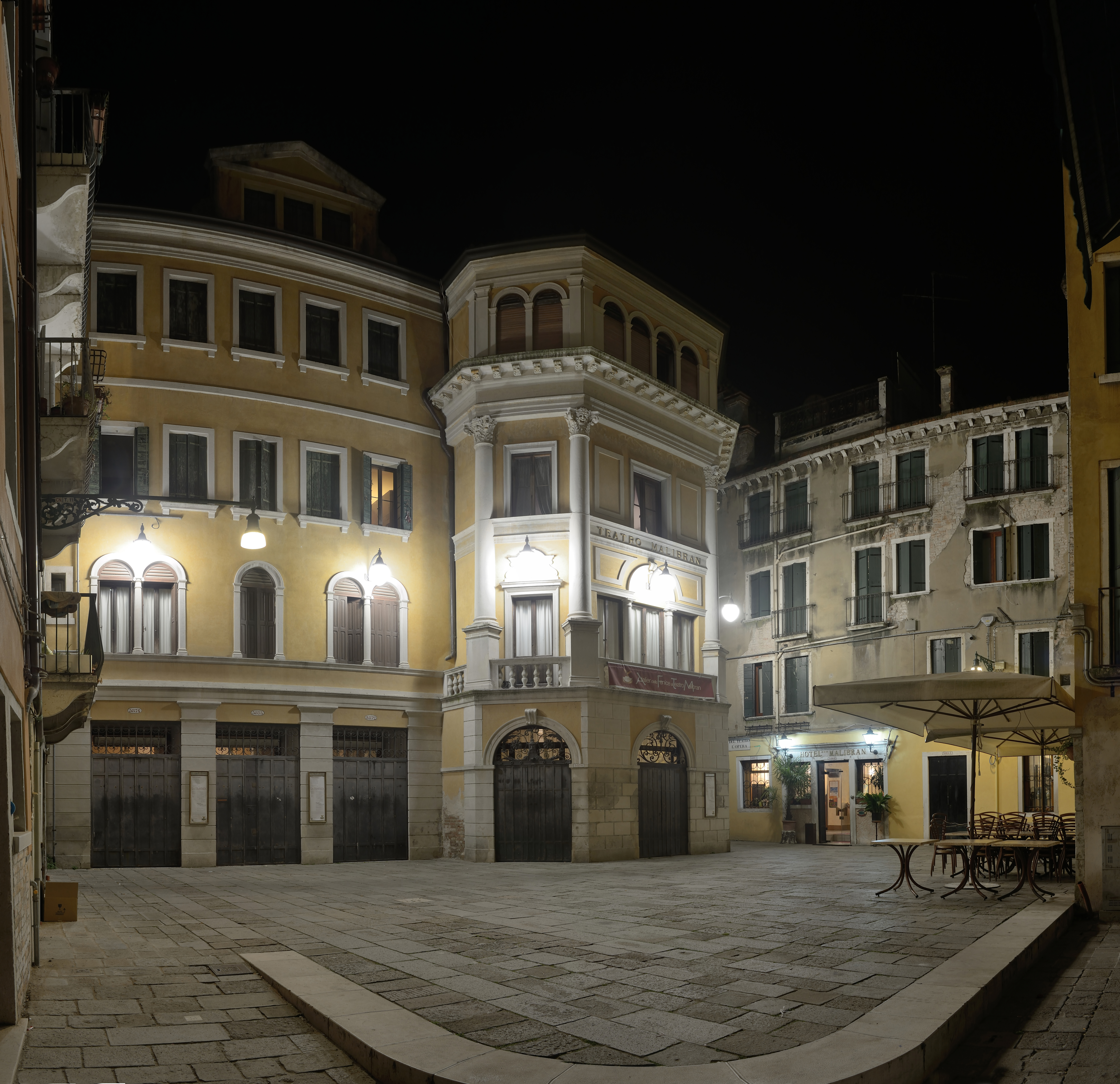 View at night of the Teatro Malibran in Venice.